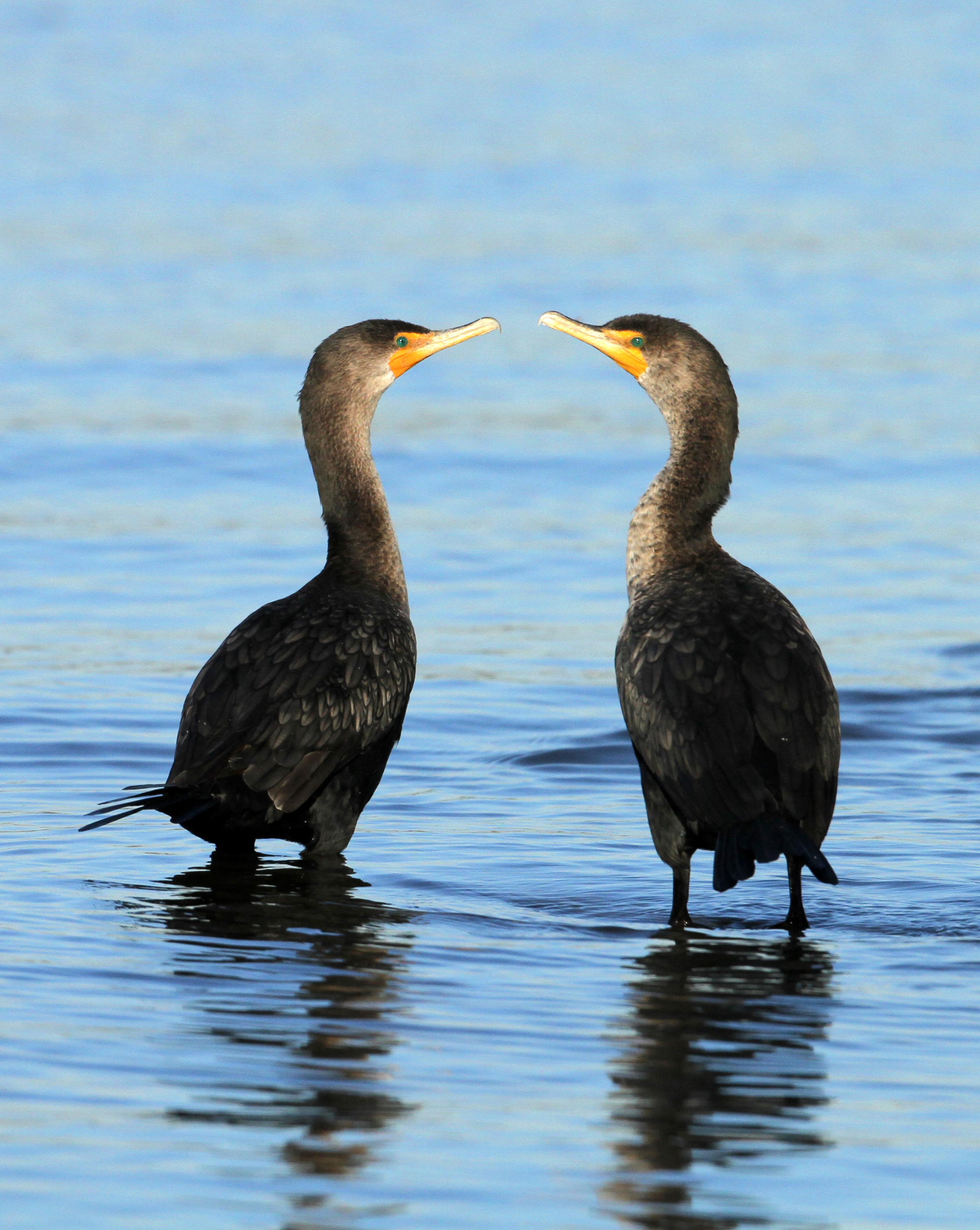 A pair of Double-crested Cormorants at White Rock Lake, Dallas, Texas